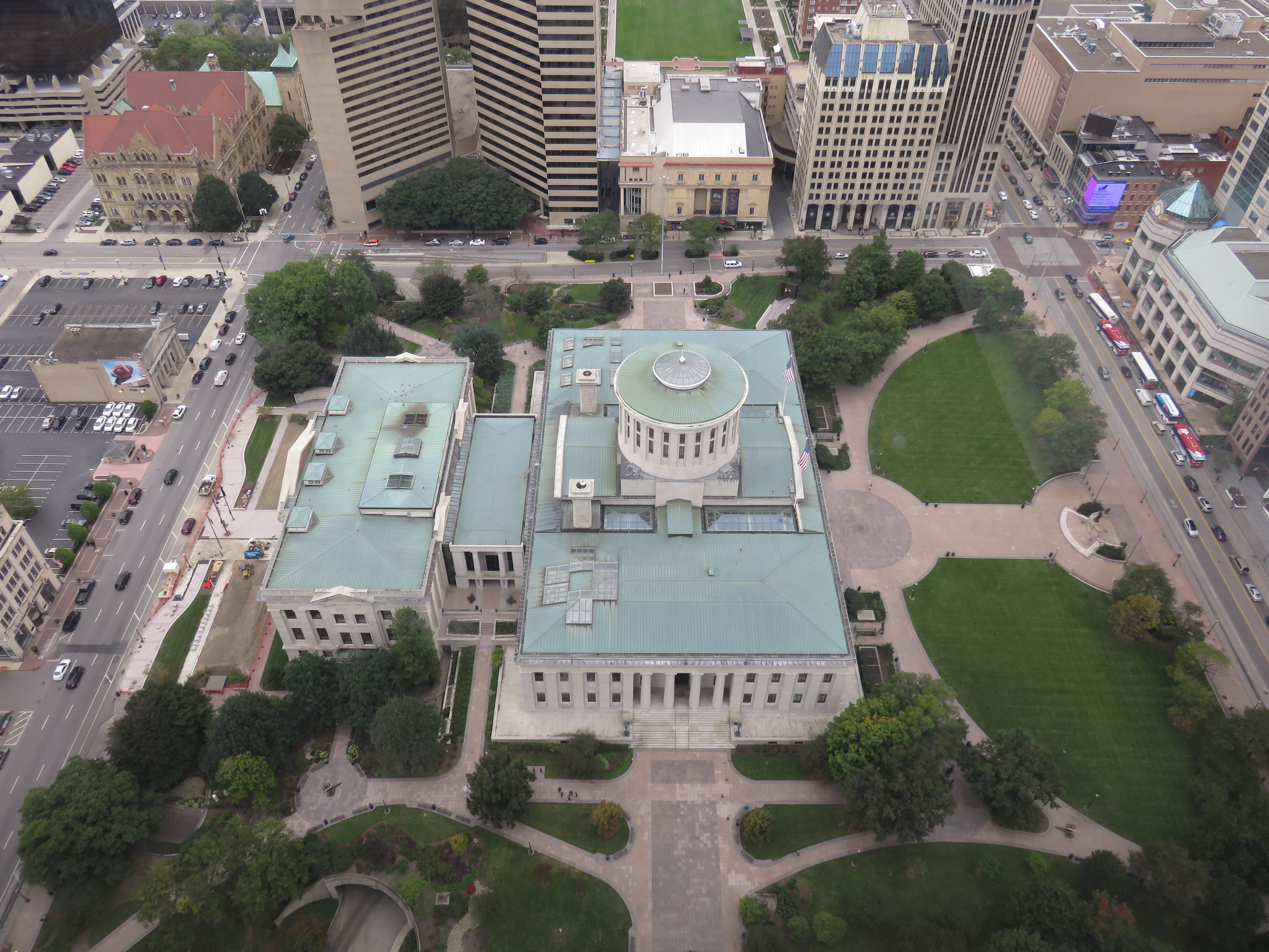 Ohio Statehouse from the Rhodes Tower in 2018